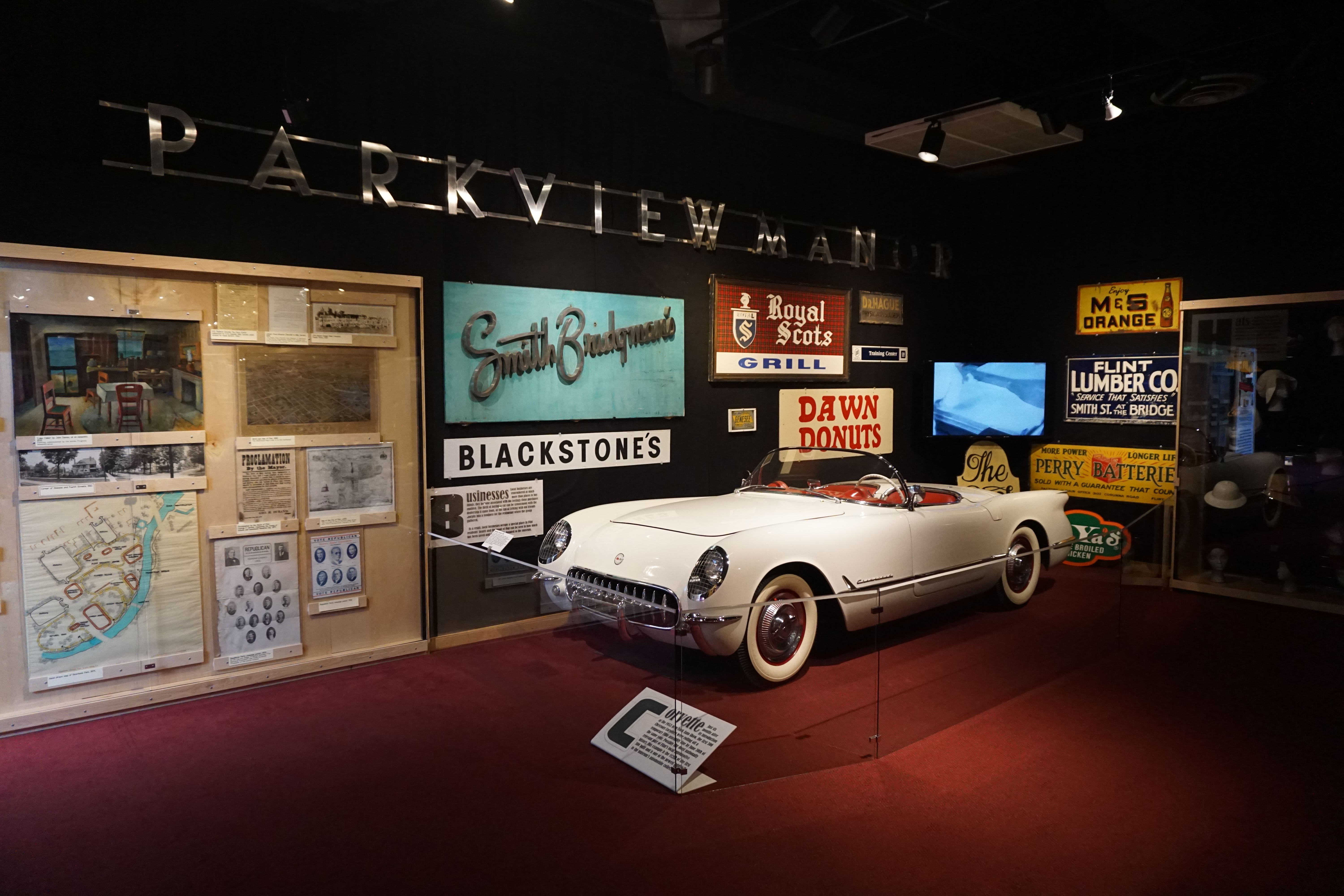 The Collecting Flint from A to Z exhibit at the Sloan Museum in Flint, Michigan (United States).